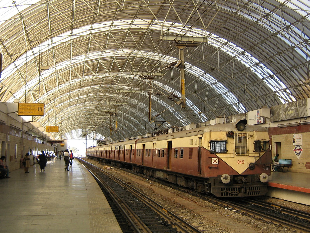 Tirumailai (Mylapore) MRTS station, Chennai, India